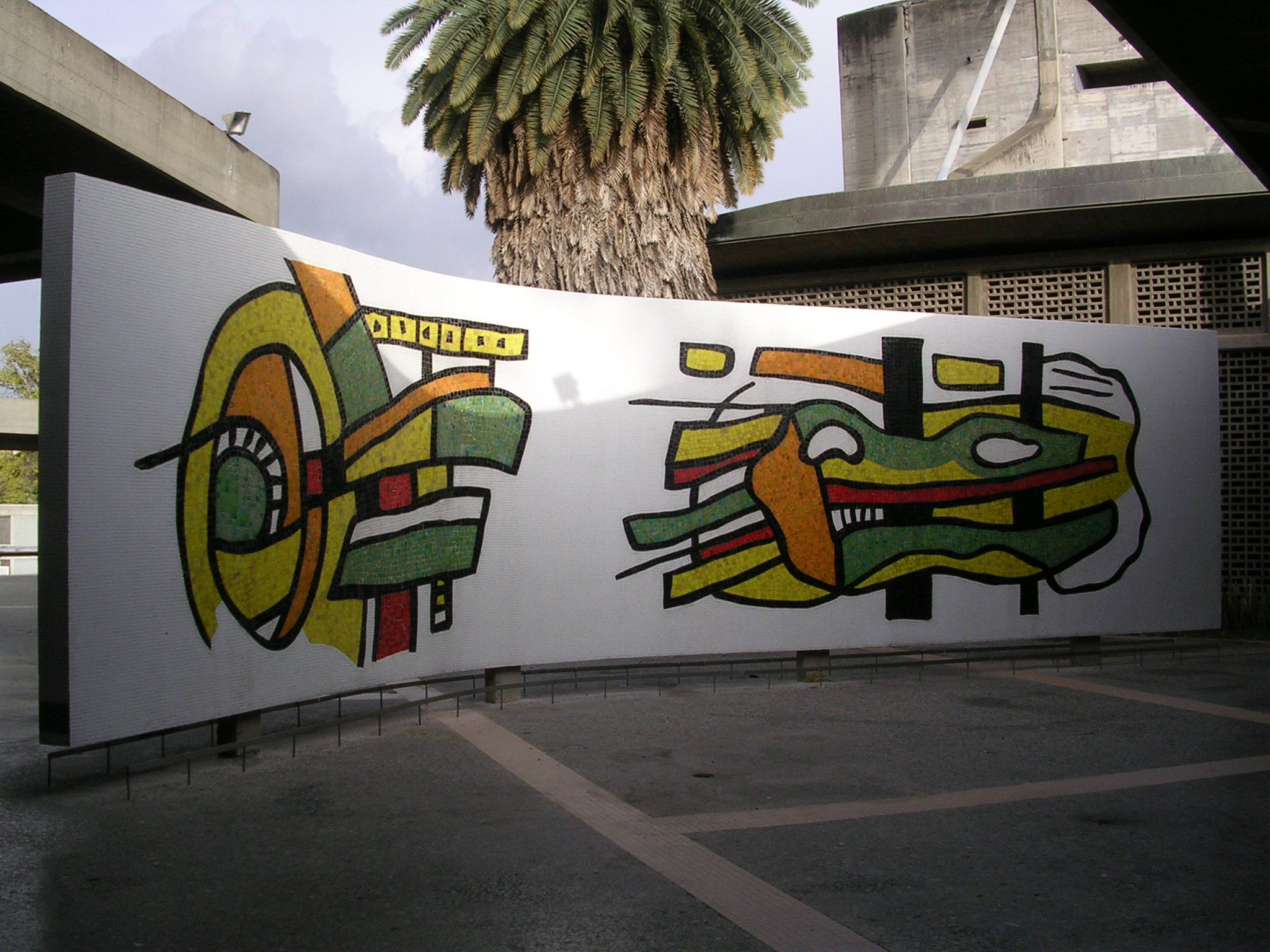 Mural by Fernand Leger. Central University of Venezuela.